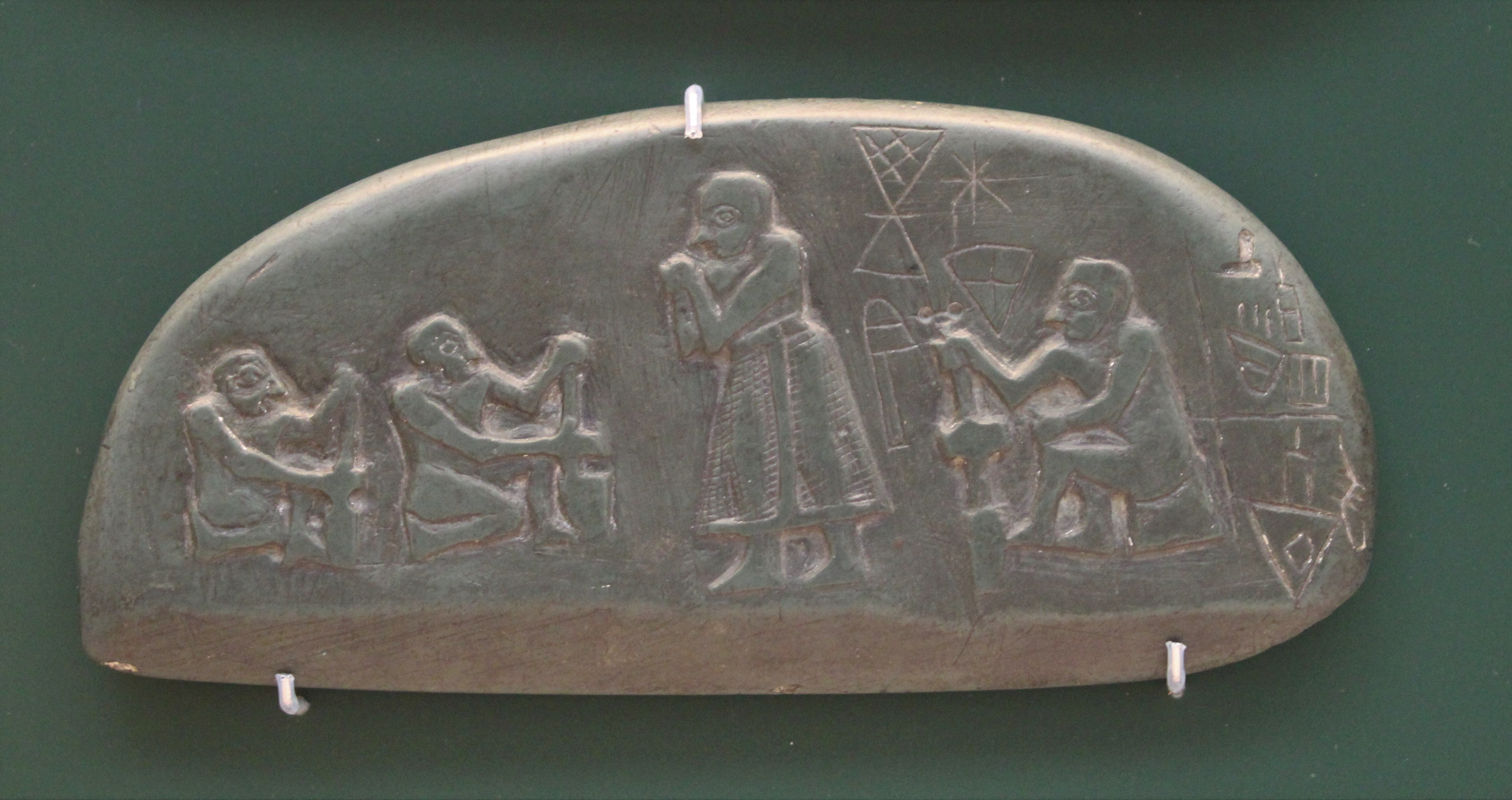 One of the two stone tablets constituting the "Blau momuments", reverse. Record a land sale. Datation: Jemdet-Nasr period (c. 3000-2900 BC) or Early Dynastic I (c. 2900-2700 BC). Possibly from Tell Uqair. BM 86261.